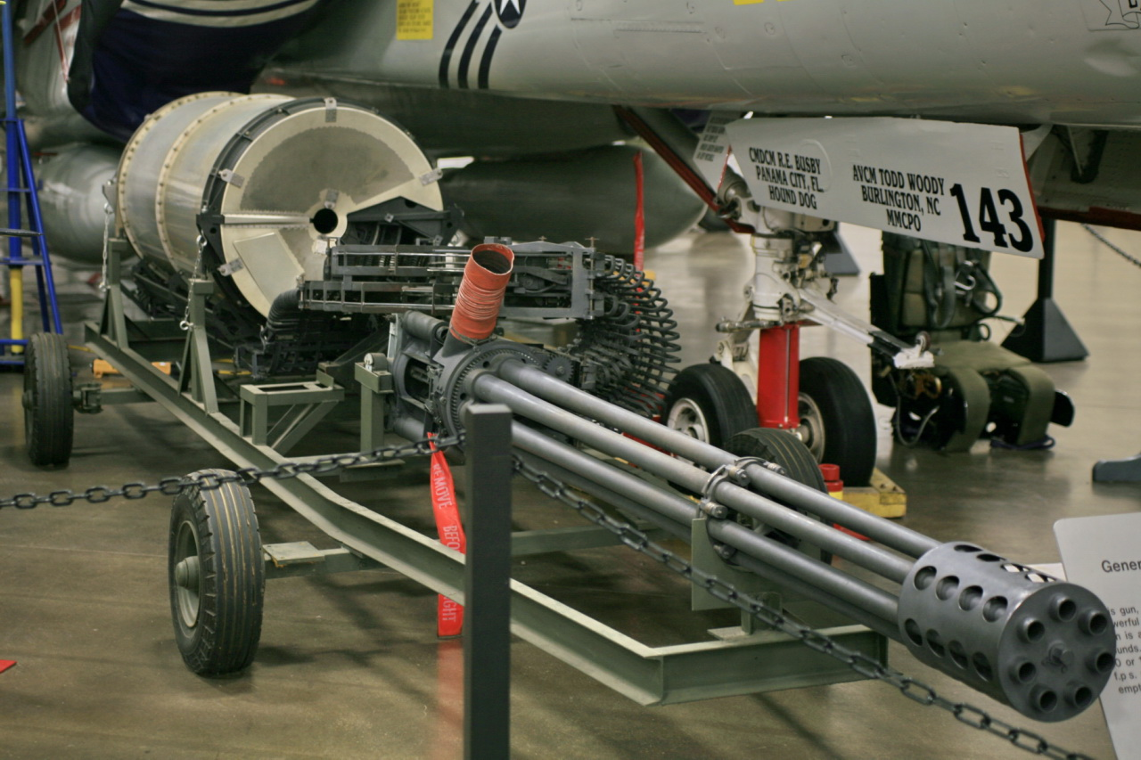 This gun, designed for the use of in the A-10 “Warthog”, is the most powerful rapid-fire weapon ever installed in any aircraft. The gun is a 30mm, 7-barrel Gatling with a capacity of 1,350 rounds. At the faster of two available firing rates, it can fire 10 or 11 two-second bursts of about 140 rounds with a 3,280 f.p.s. muzzle velocity. The gun system weighs 1,950 pounds empty or 4,029 pounds full. Spent cartridges are retained.